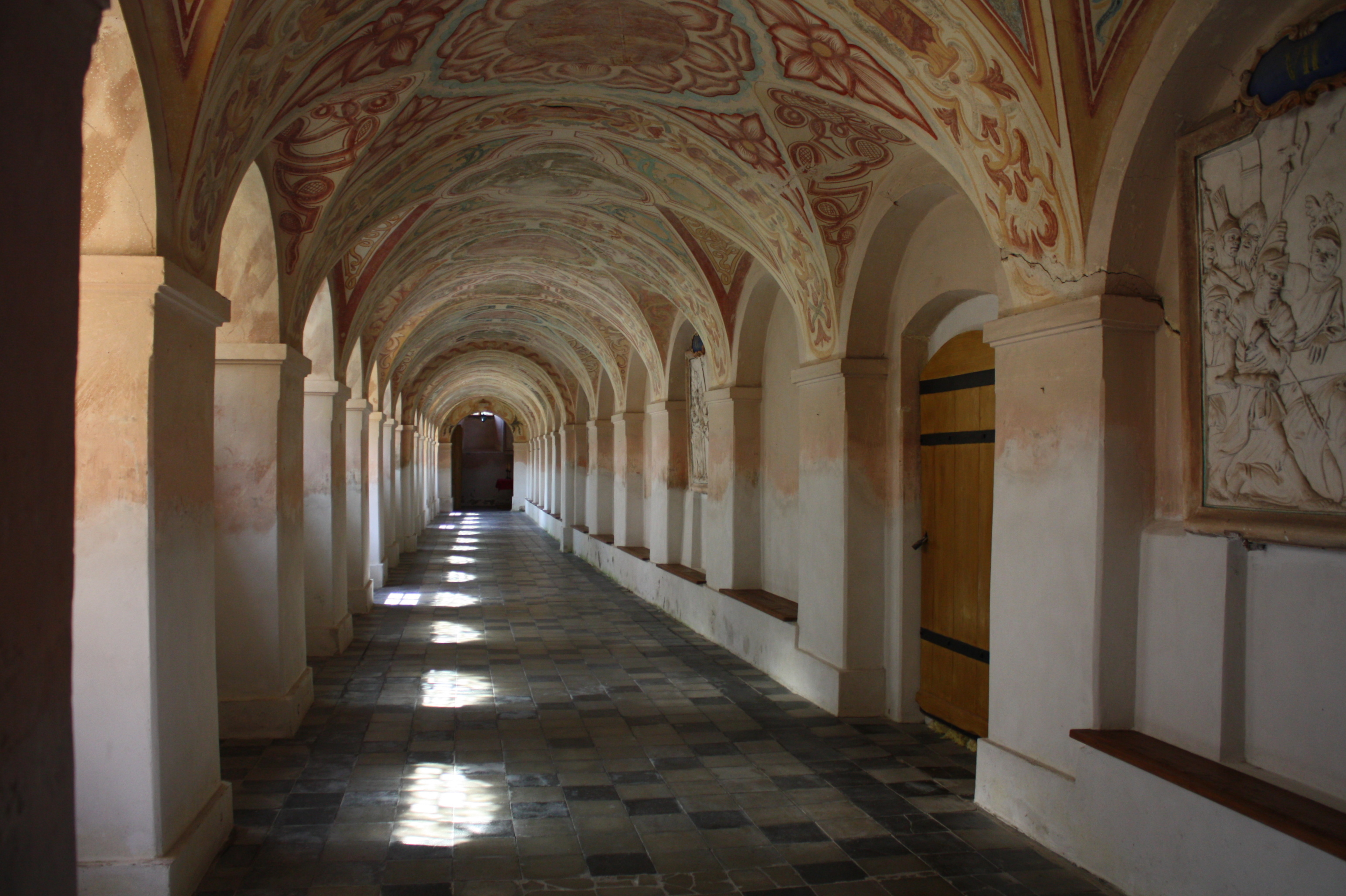 This photo of Warmian-Masurian Voivodeship was taken during Wikiexpedition 2012 set up by Wikimedia Polska Association. You can see all photographs in category Wikiekspedycja 2012. The making of this document was supported by Wikimedia Polska.